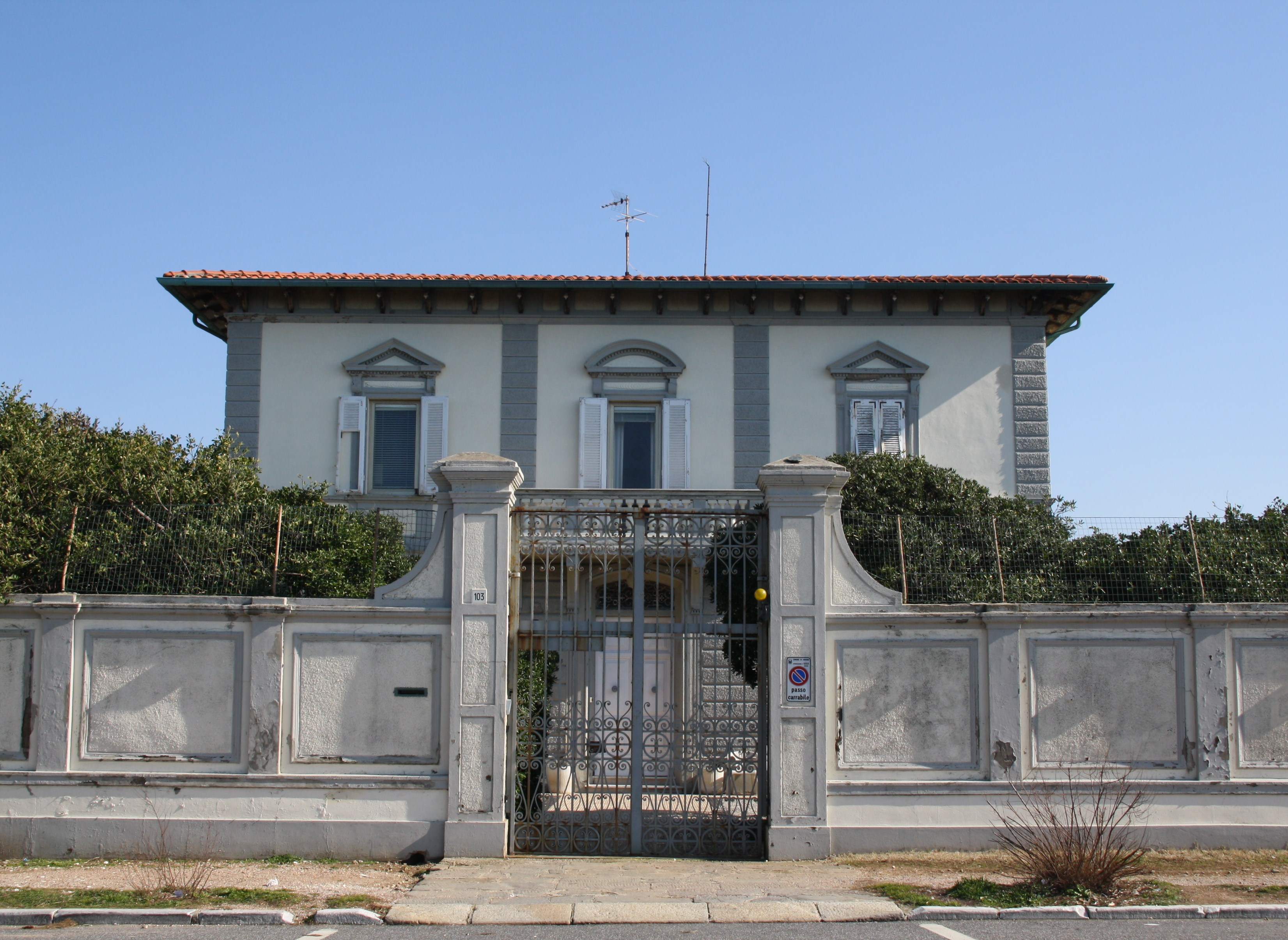 Italy, Livorno, Viale di Antignano 103, Villa Mascagni. It was built in 1916 by Ginevra Sampieri along the road once called Viale Principe di Napoli. The façade is symmetrical divided into three vertical parts of which the center is occupied by the main door surmounted by a balcony. In the same year the property was owned by Pietro Mascagni by notarial act of July 6 and registered on 24 in Livorno. In this villa Mascagni composed the “Lodoletta” and “Il piccolo Marat”. Following the death of Mascagni the villa passed to the sons Domenico and Emilia who decided, at first time, to transform it into a Museum. In 1958 the property was sold to Fernanda Fernandez Affricano in Pacella.